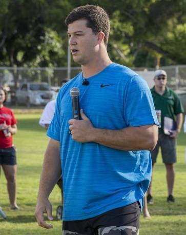 PEARL HARBOR (Dec. 5, 2015) Mitch Harris, a class of 2008 U.S. Naval Academy graduate, a Lieutenant in the U.S. Navy reserve, and a pitcher for the St. Louis Cardinals, talks to service members during a Major League Baseball Players Clinic at Ward Field on Joint Base Pearl Harbor-Hickam. FOX Sports arranged the clinic and other sports outreach events to help pay tribute to the nation's military while enlightening Americans about the 74th anniversary of Pearl Harbor Day.